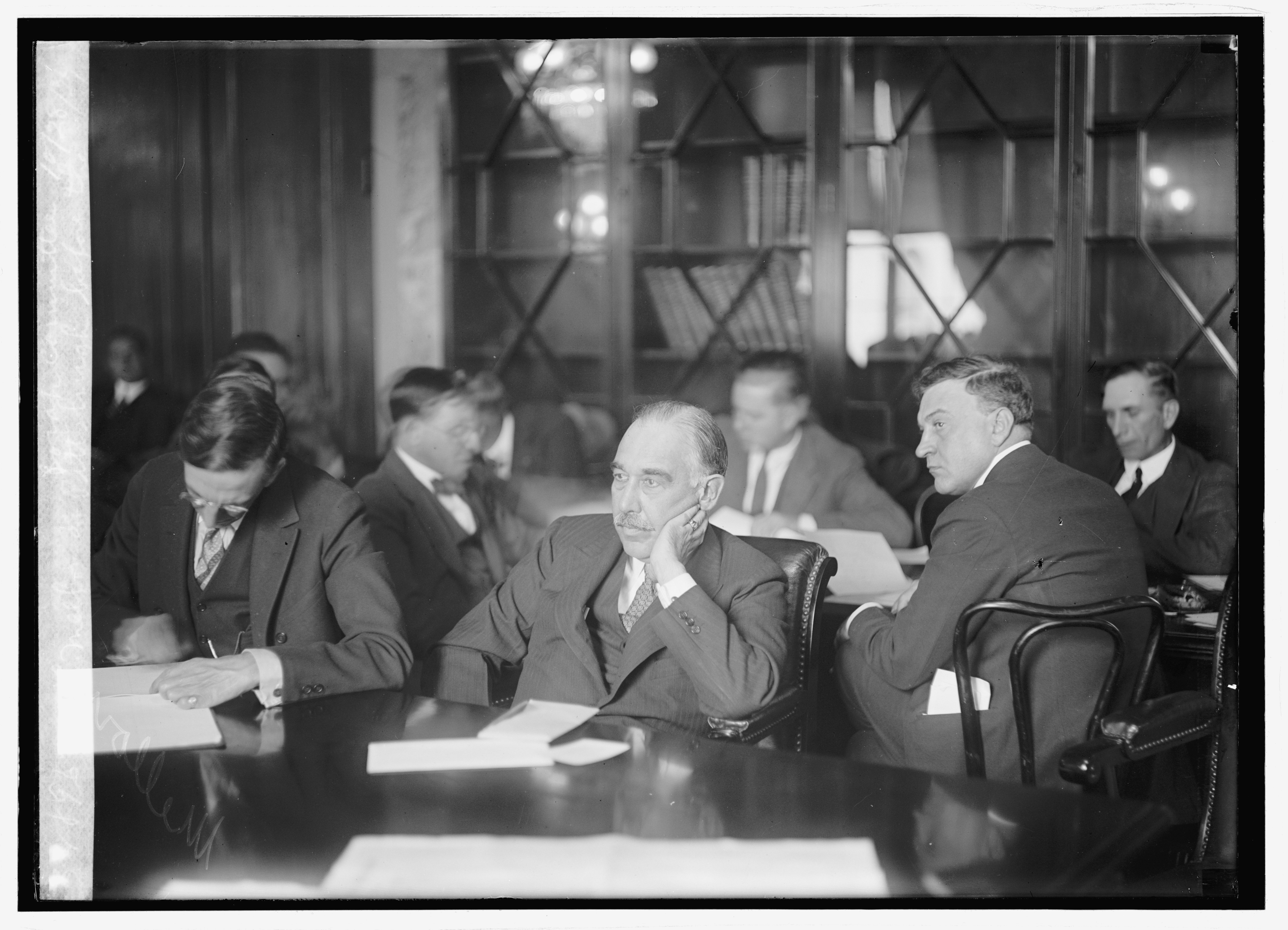 Title: Wm. L. Mellon of Pittsburgh before the Borah Committee, 10/28/24 Abstract/medium: 1 negative : glass ; 5 x 7 in. or smaller